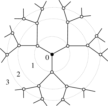 Bethe lattice with z=3